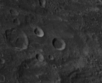 Oblique view of Rayleigh (crater) (large crater in center) and Urey (crater) (left center), on the far side of the moon. North is at top.